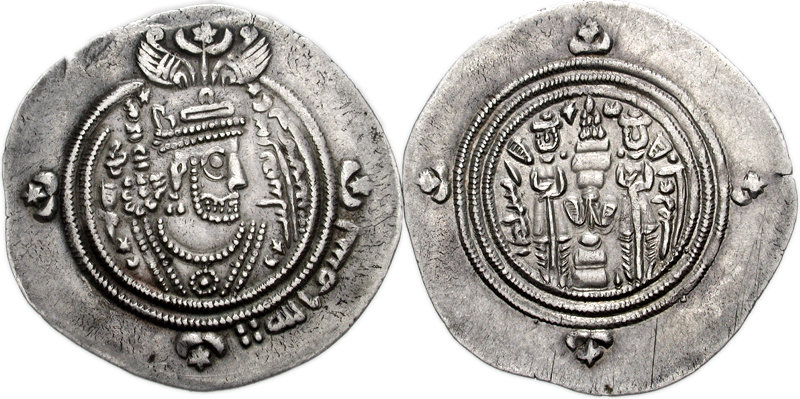 Umayyad Caliphate. temp. Yazid I ibn Mu'awiya. AH 60-64 / AD 680-683. AR Drachm (33mm, 4.08 g, 6h). Arab-Sasanian type. BCRA (Basra) mint; Ubayd Allah ibn Ziyad, governor. Dated AH 60 = AD 679/680. Sasanian style bust imitating Khosrau II right; bismillah and four pellets in margin / Fire altar with ribbons and attendants; star and crescent flanking flames; date to left, mint name to right.